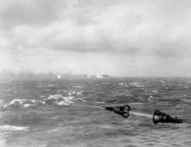 The sinking German battleship Bismarck on fire in the distance, surrounded by shell splashes. The photo was taken from one of the Royal Navy warships chasing.